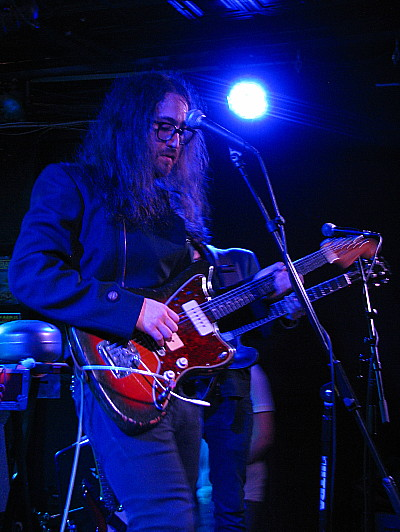 Sean Lennon performing with The Ghost of a Saber Tooth Tiger at The Saint in Asbury Park, NJ in September 2013. Photo 2. Photo by LHCollins.